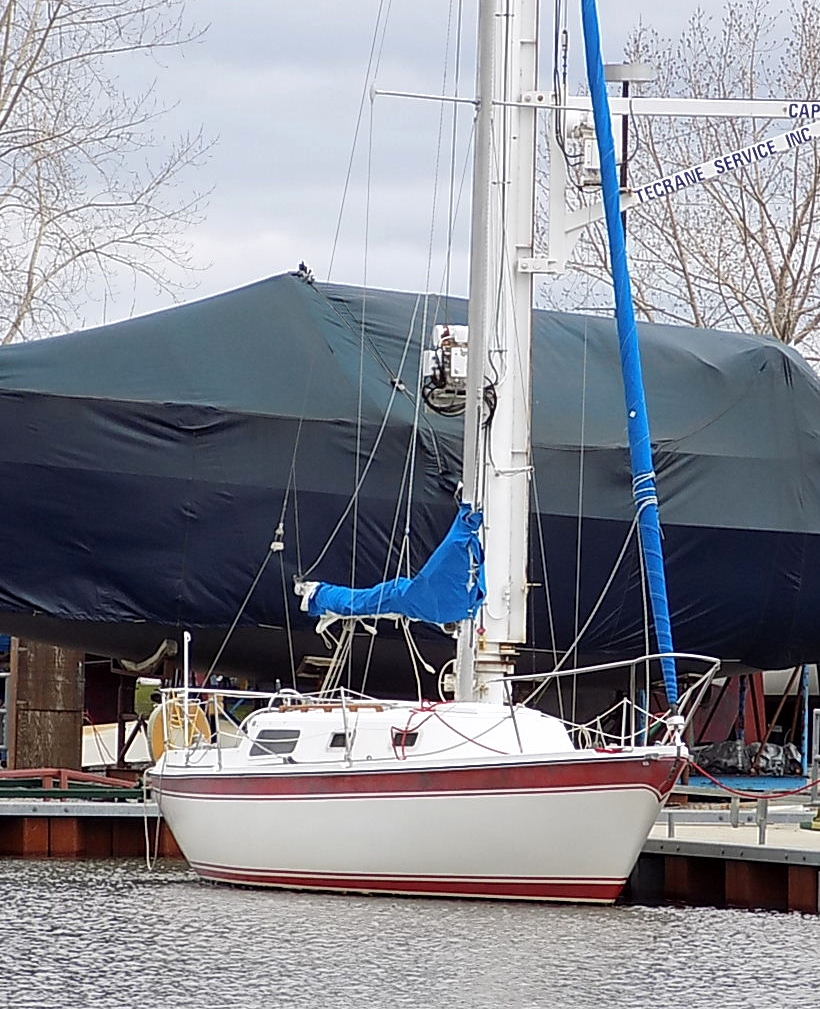 Cal 2-27 sailboat named Baby Cal at Nepean Sailing Club on Lac Deschênes, Ottawa, Ontario, Canada